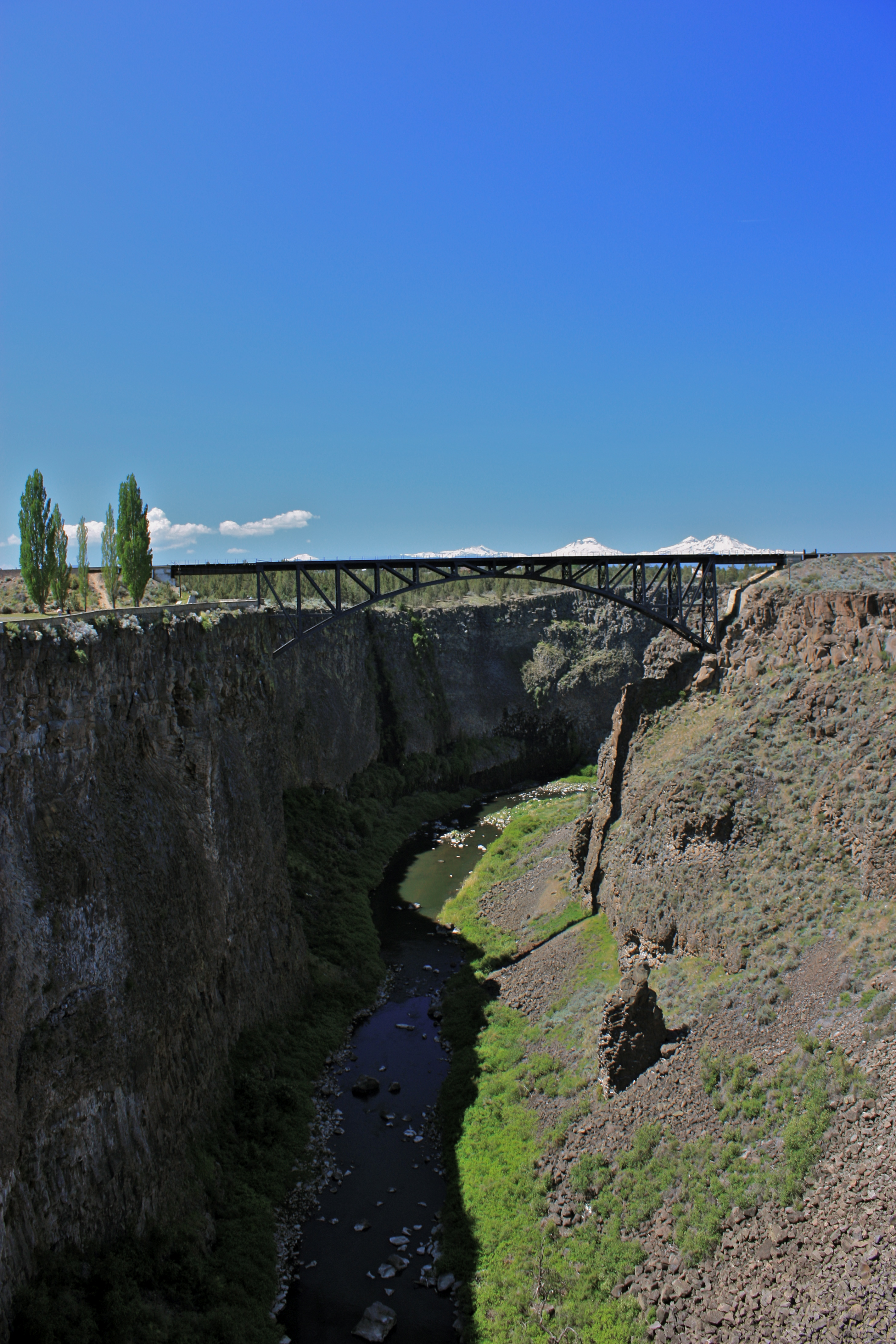 The Three Sisters loom large over a rail bridge over the Crooked River Gorge at Peter Skene Ogden State Park just north of Terrebonne, Oregon.